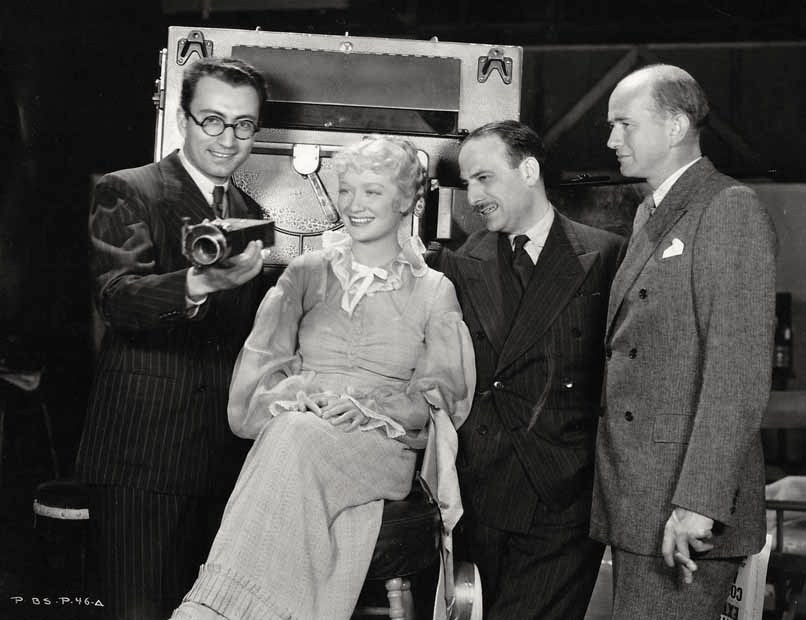 L. to R. : Rouben Mamoulian (director), Miriam Hopkins (actress), Michael Balcon (visitor) & Kenneth Macgowan (producer) on the set of Becky Sharp - publicity still